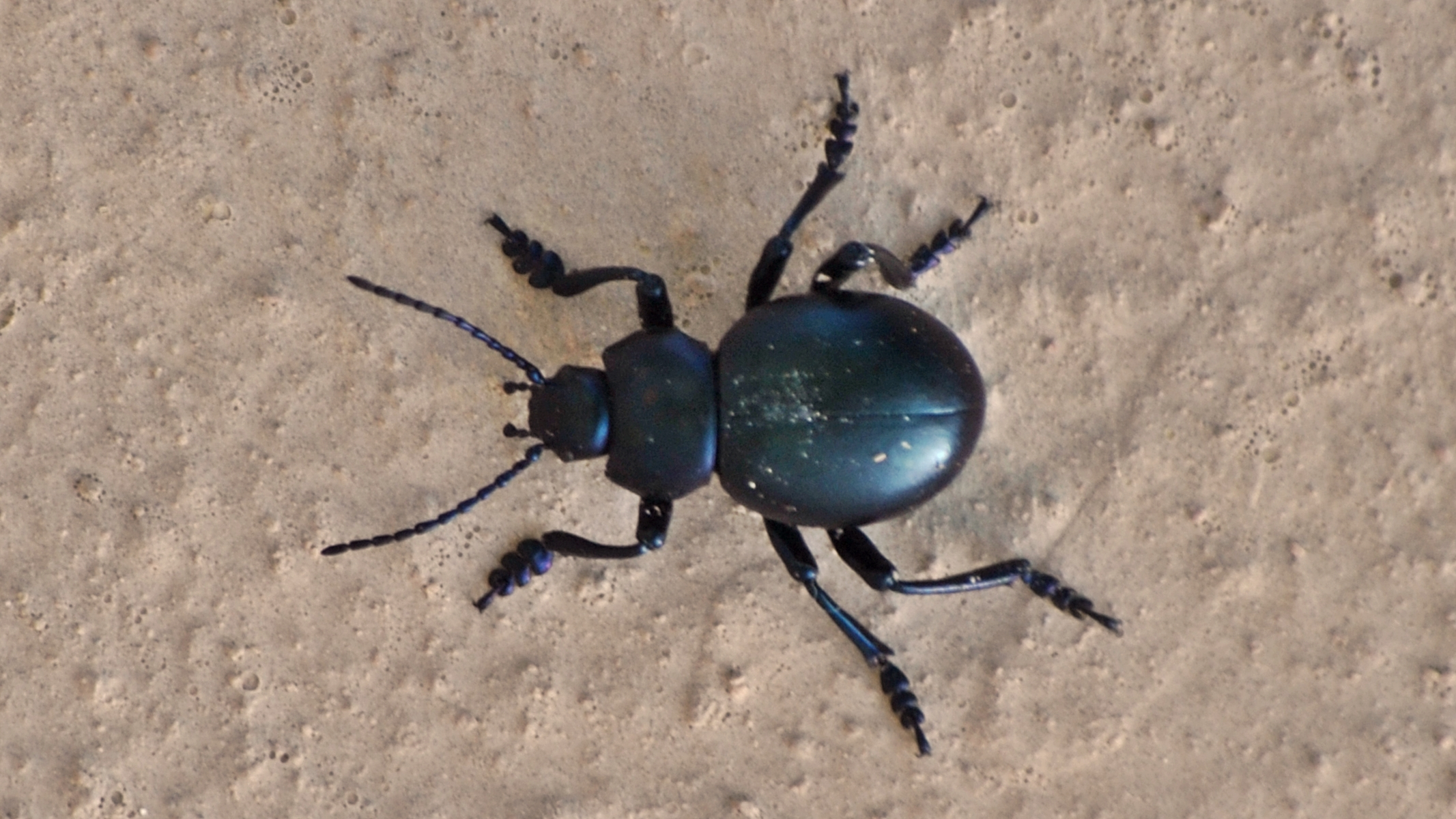 Timarcha balearica